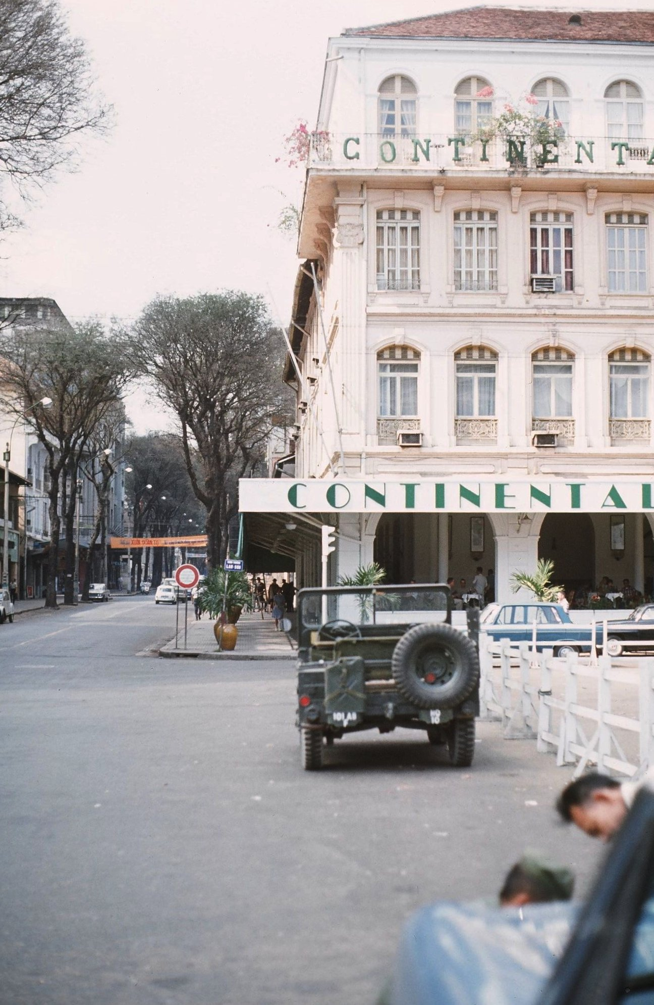 My favorite place for a G&T and reading Graham Greene.